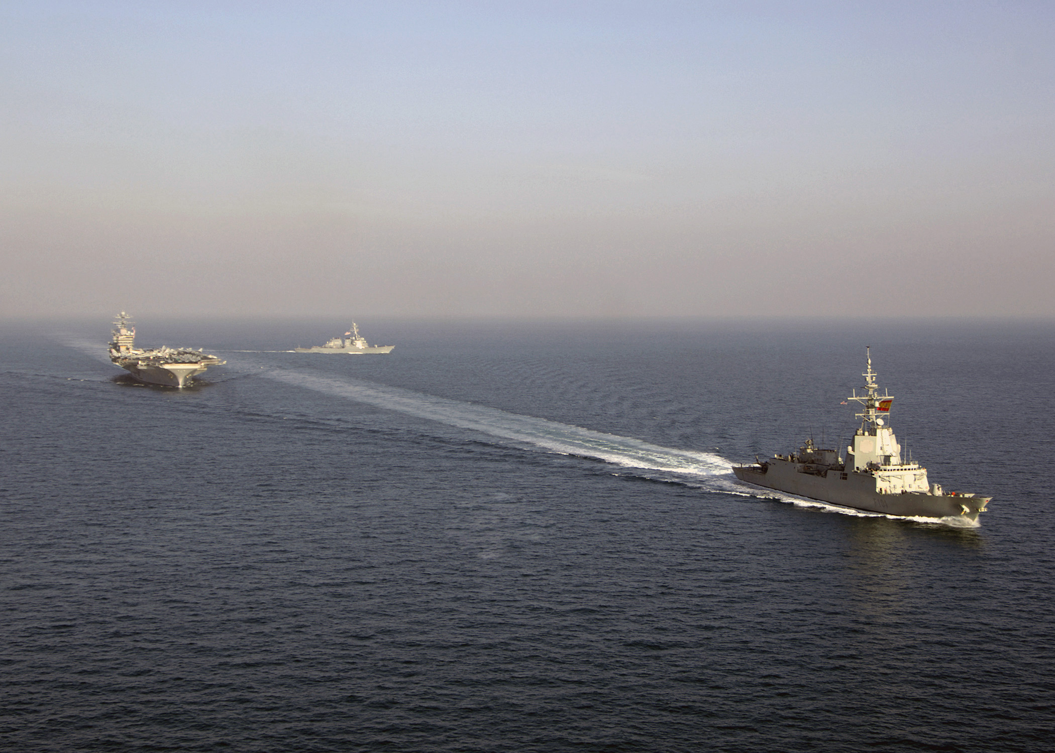 The Spanish Navy 100 Class Frigate ALVARO DE BAZAN (F101) sails past the US Navy (USN) Nimitz Class Aircraft Carrier USS THEODORE ROOSEVELT (CVN 71) and the USN Arleigh Burke Class Guided Missile Destroyer USS DONALD COOK (DDG 75) as she departs from Carrier Strike Group 2 (CSG-2). CSG-2 is currently underway on a regularly scheduled deployment conducting maritime security operations (MSO).